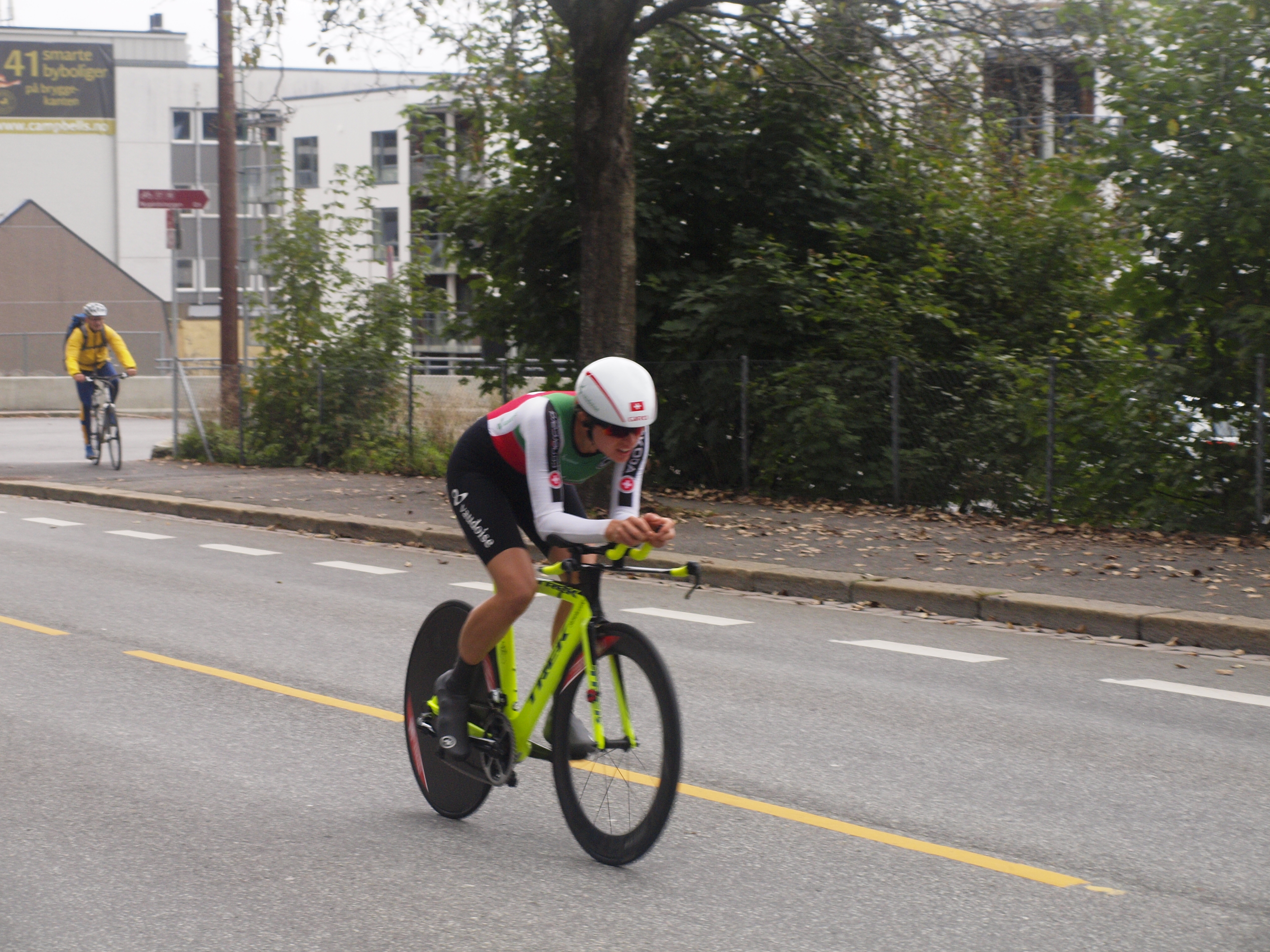 Marlen Reusser at the 2017 UCI World Championships